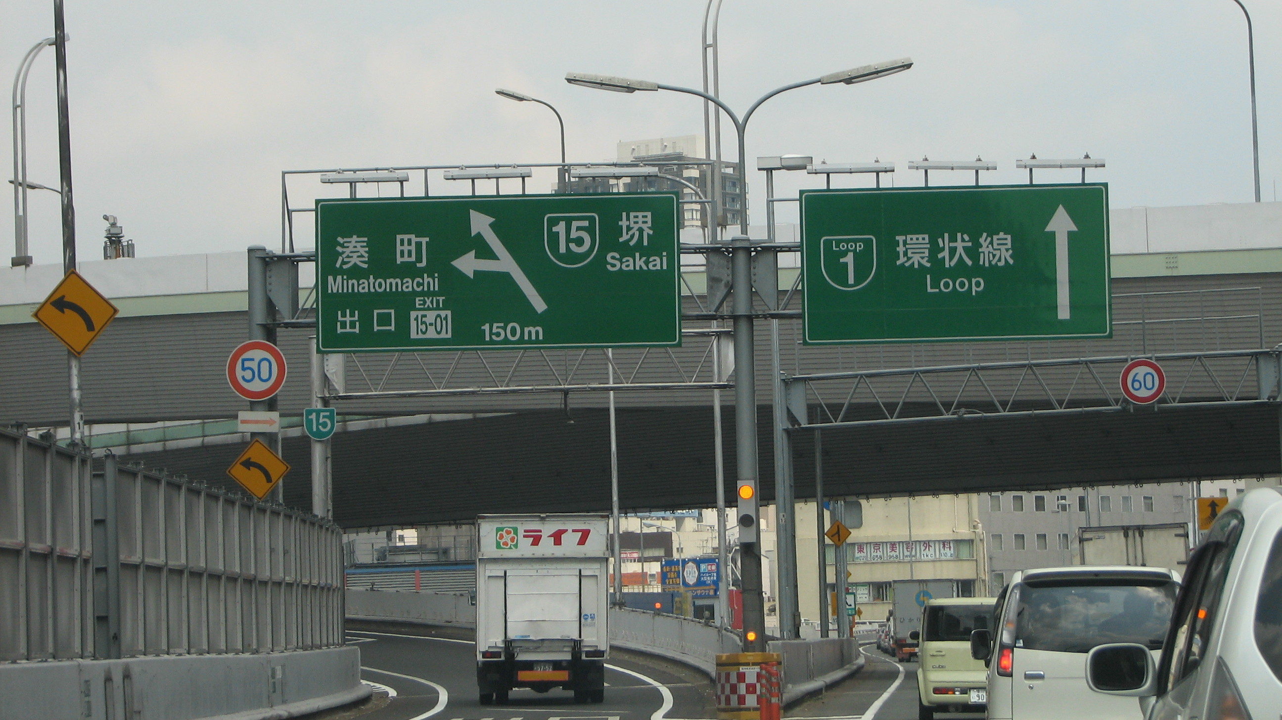 Hanshin Expressway Minatomachi IC (from Loop Route)